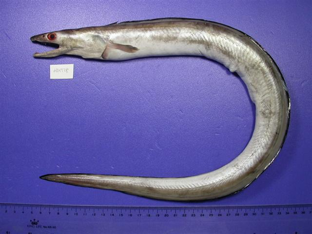 Muraenesox cinereus collected in Yilen-Tashi, Taiwan.